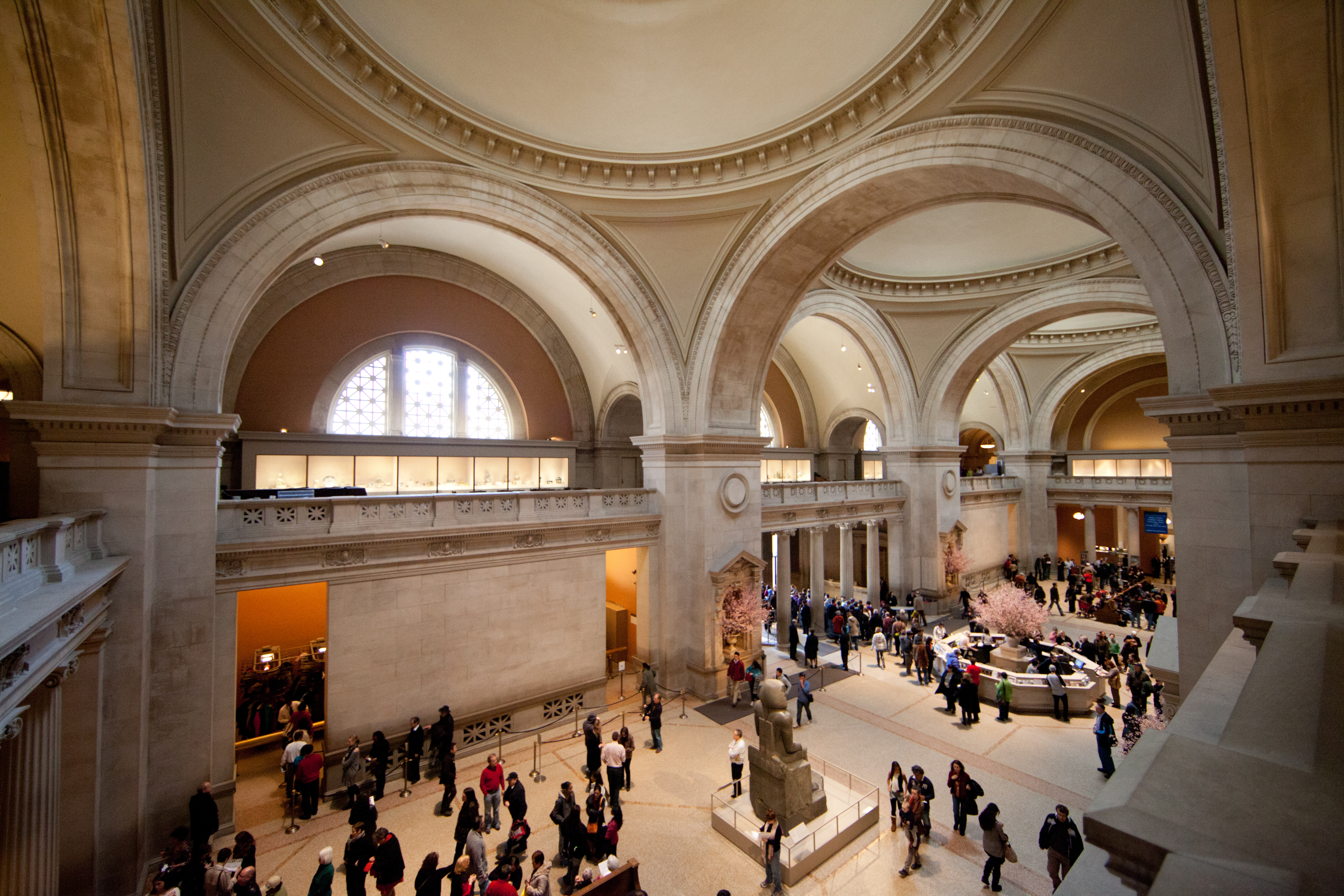 MET - The Great Hall - Metropolitan Museum of Art, New York, NY, USA - 2012